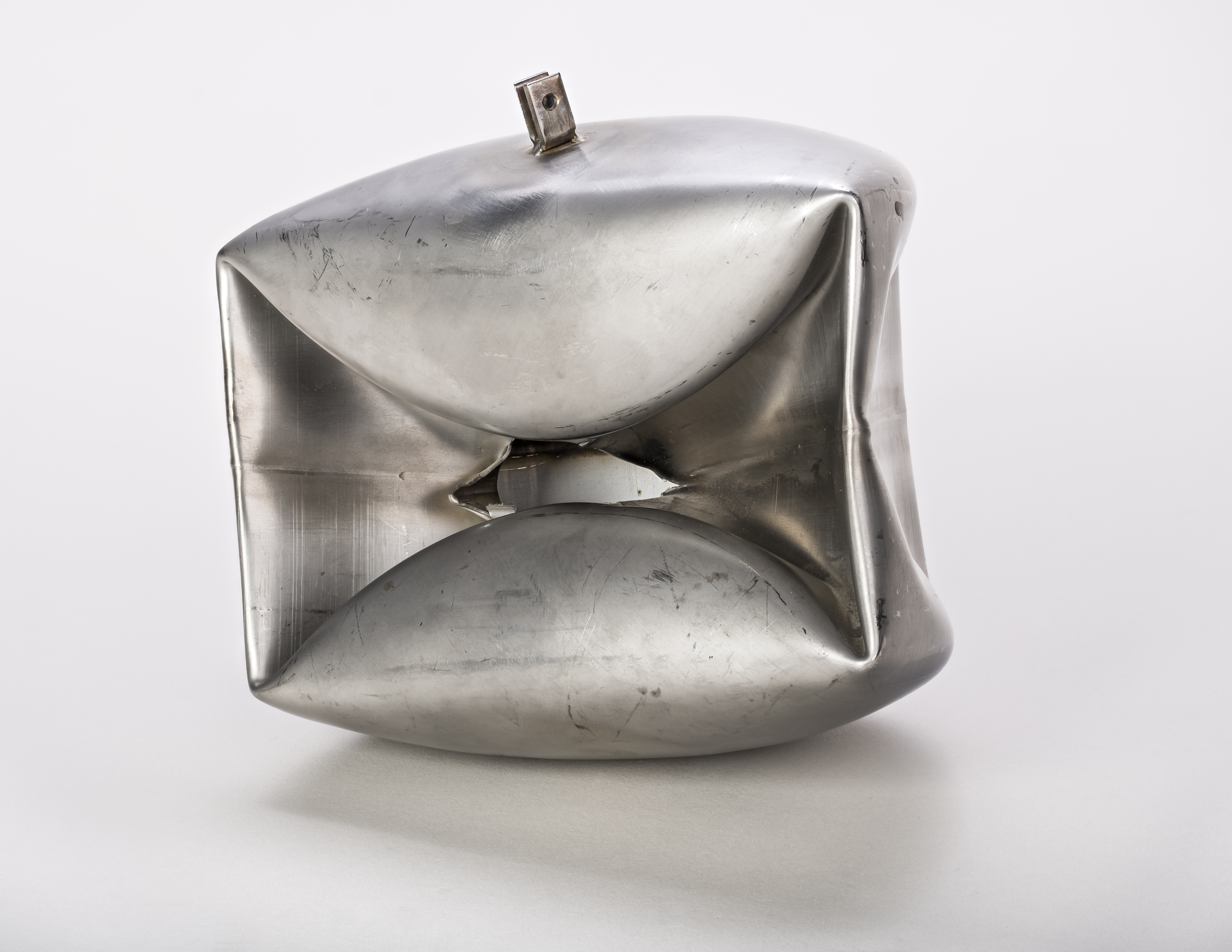 A float gauge of a separation vessel, destroyed by a Joukowsky Pressure Shock from an interconnected fluid pipeline. The pressure shock squeezed the symetric float gauge until it burst as consequence of the external overpressure)